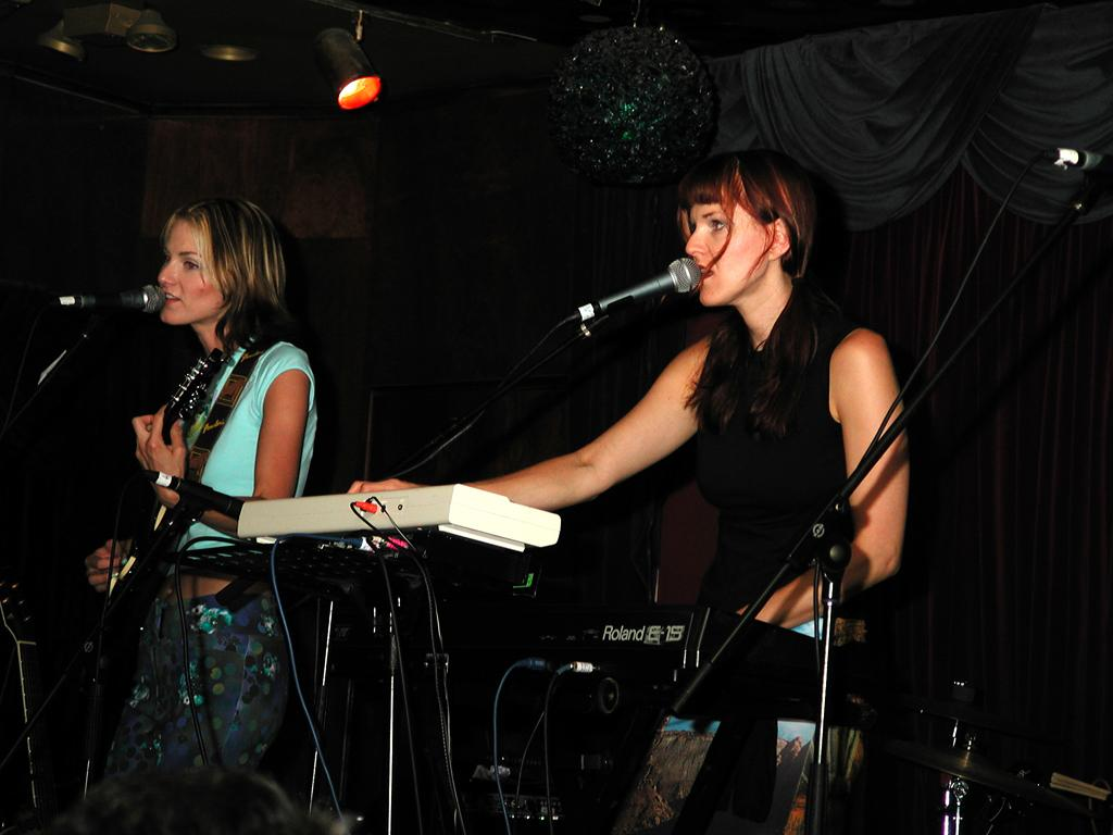 The Twigs live at The Mint, Los Angeles, CA. Laura Good (L), Linda Good (R). Photo by John Perry.